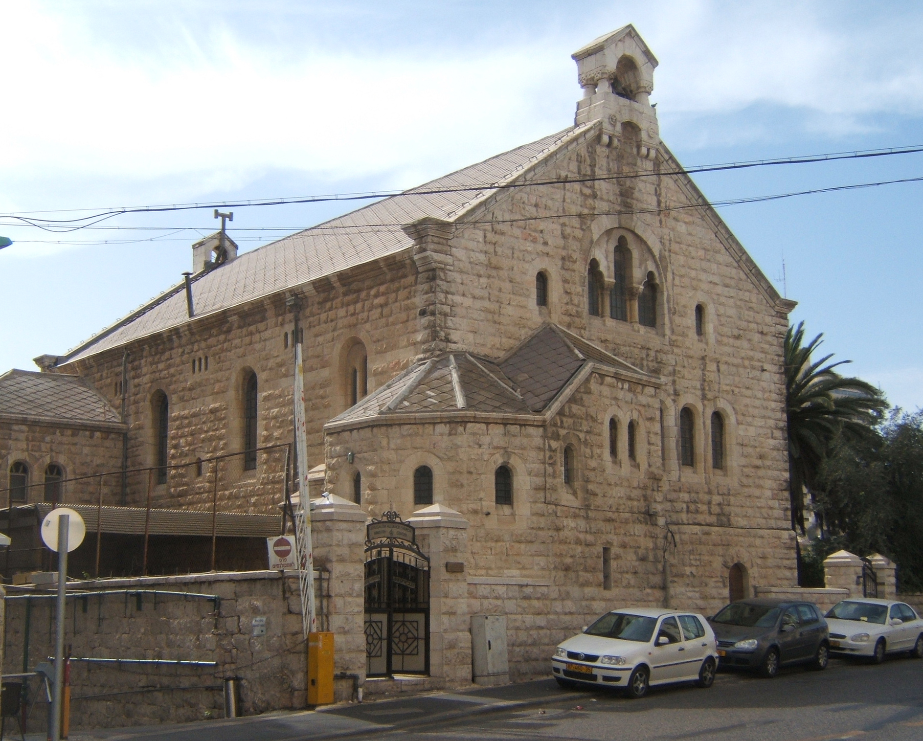 International Evangelical Church, Jerusalem